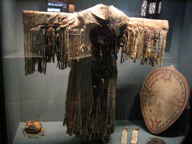 Evenk shaman costume; Siberia, at Musée du quai Branly, Paris, France. Costume is made from reindeer skin. reindeer is the sacred and cattlebreeding animal of Evenks.